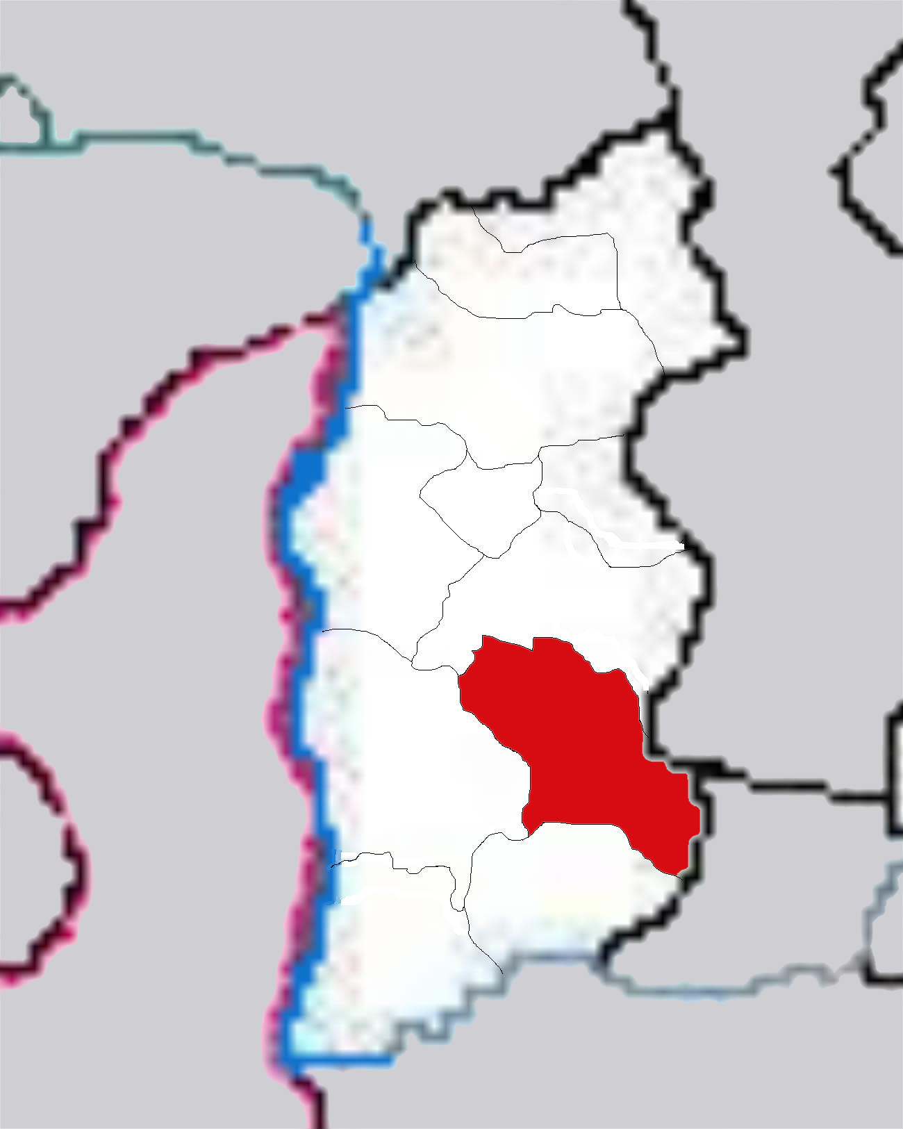 Maps of Shanxi Province of China